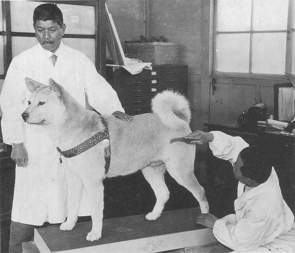 Stuffed production of Hachiko.